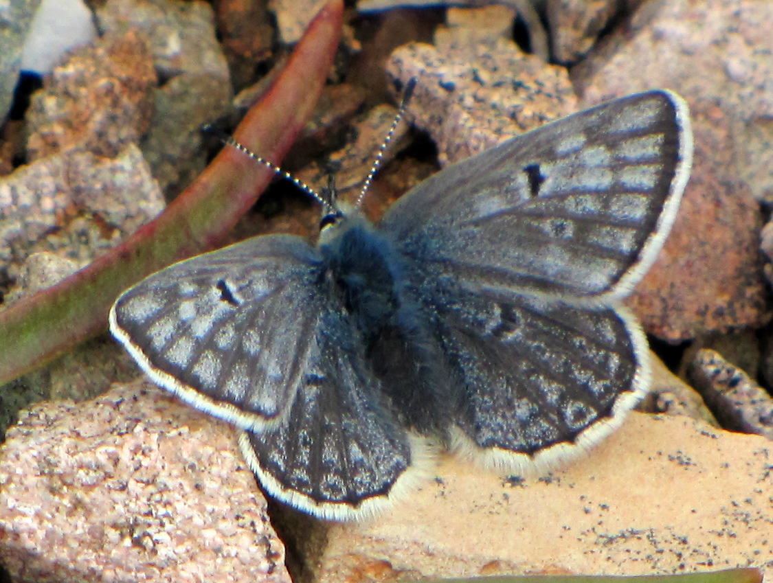 Arctic Blue (Agriades glandon), Bonavista, Newfoundland and Labrador, Canada